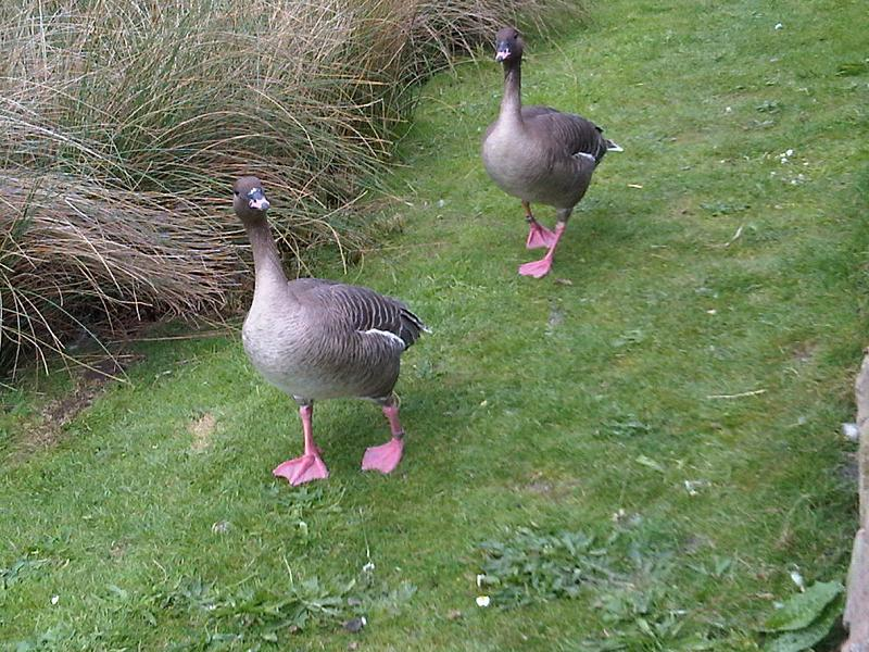 Pink-footed Geese Anser brachyrhynchus in WWT London Wetland Centre, England.